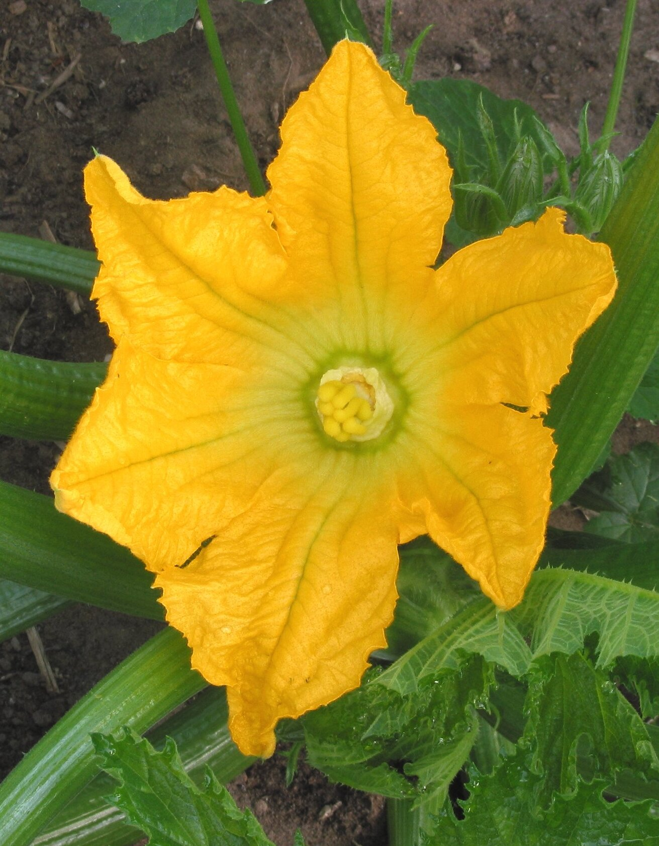 Courgette flower